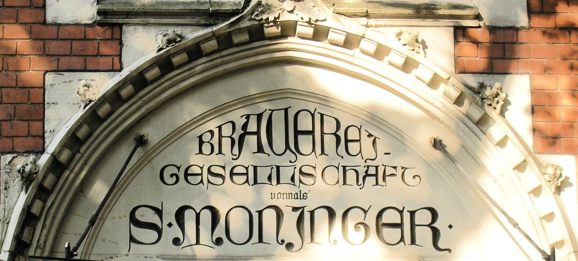 Art Nouveau company sign of Moninger Brewery